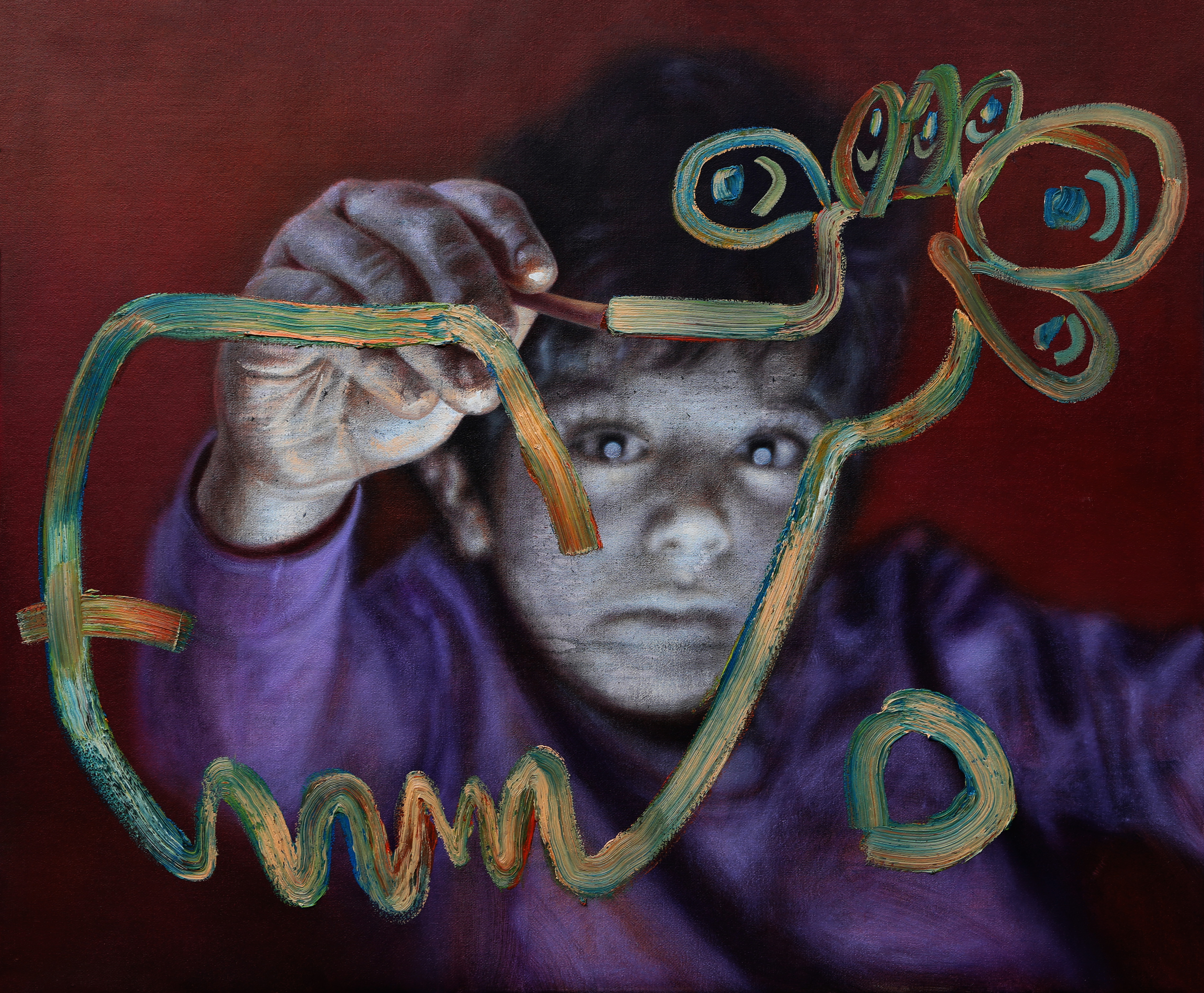 A photograph of an oil painting on canvas created by artist, Sara Shamma in 2016. The original painting is 120x100cm in size.